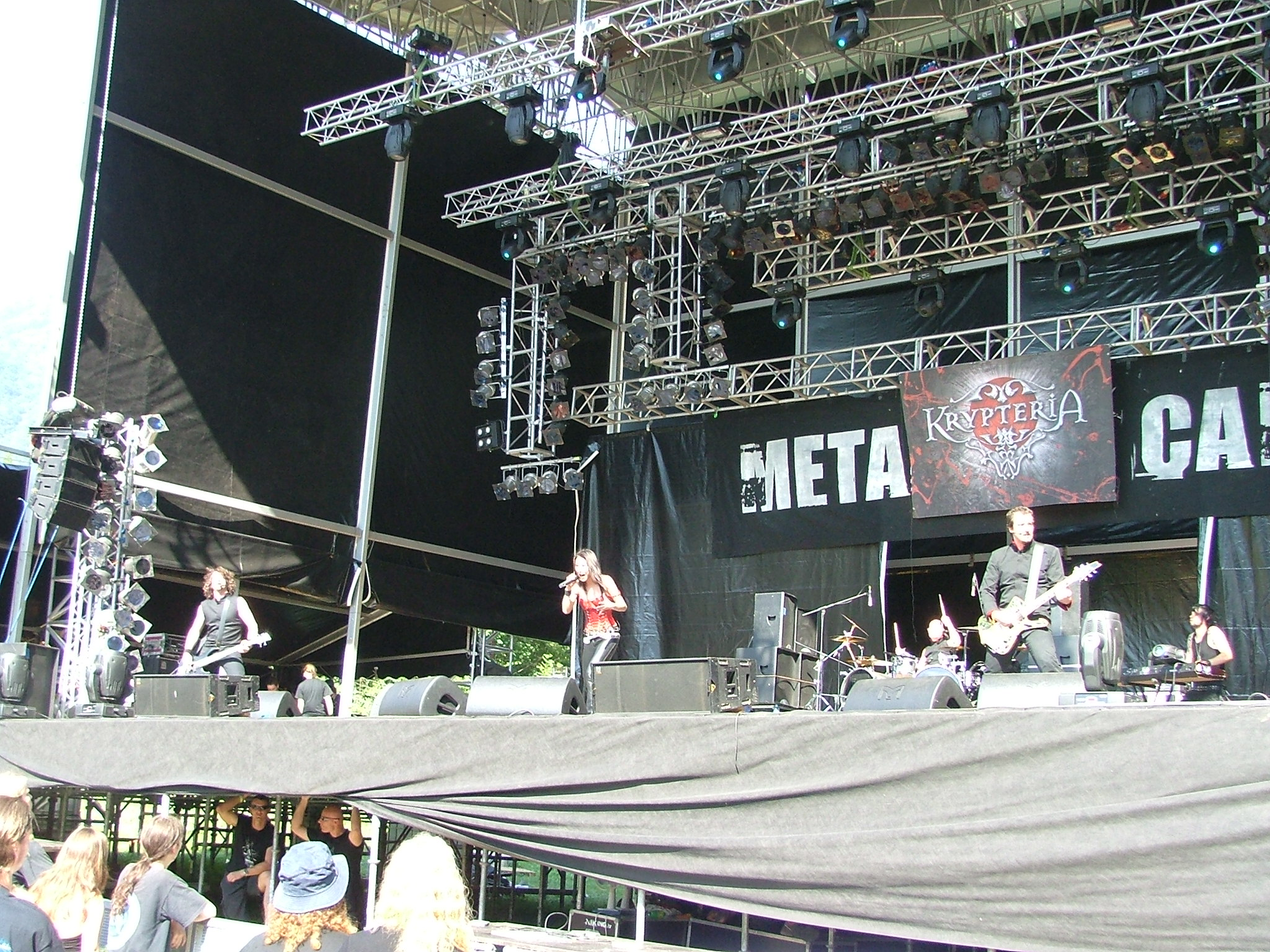 German symphonic metal band Krypteria at the Metalcamp in Tolmin